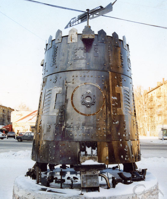 Pepelac2010